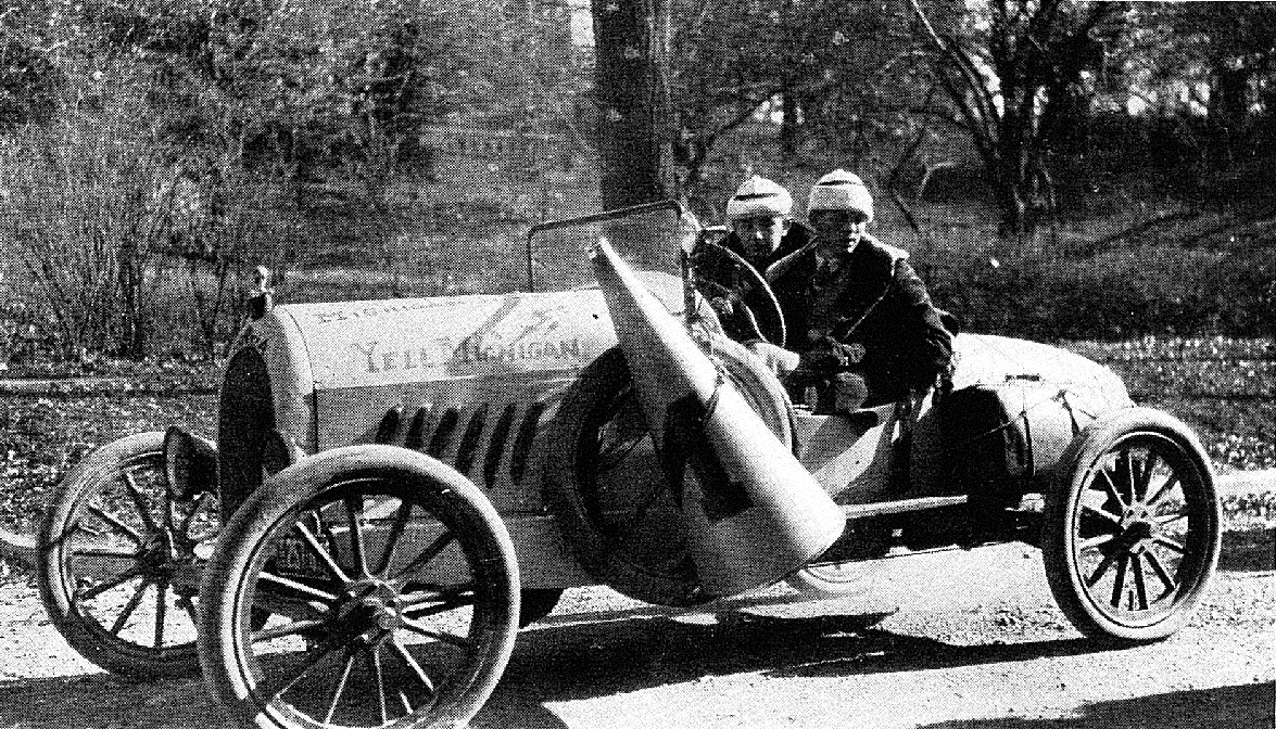 Photograph of Michigan football fans driving to 1923 football game at either Iowa or Wisconsin. This work is in the public domain because it was published in the United States between 1923 and 1963 and although there may or may not have been a copyright notice, the copyright was not renewed. Unless its author has been dead for the required period, it is copyrighted in the countries or areas that do not apply the rule of the shorter term for US works, such as Canada (50 pma), Mainland China (50 pma, not Hong Kong or Macao), Germany (70 pma), Mexico (100 pma), Switzerland (70 pma), and other countries with individual treaties. See Commons:Hirtle chart for further explanation. This work is in the public domain in the United States because it was published in the United States between 1923 and 1977 without a copyright notice. See this page for further explanation. Note that it may still be copyrighted in jurisdictions that do not apply the rule of the shorter term for US works (depending on the date of the author's death), such as Canada (50 p.m.a.), Mainland China (50 p.m.a., not Hong Kong or Macao), Germany (70 p.m.a.), Mexico (100 p.m.a.), Switzerland (70 p.m.a.), and other countries with individual treaties.